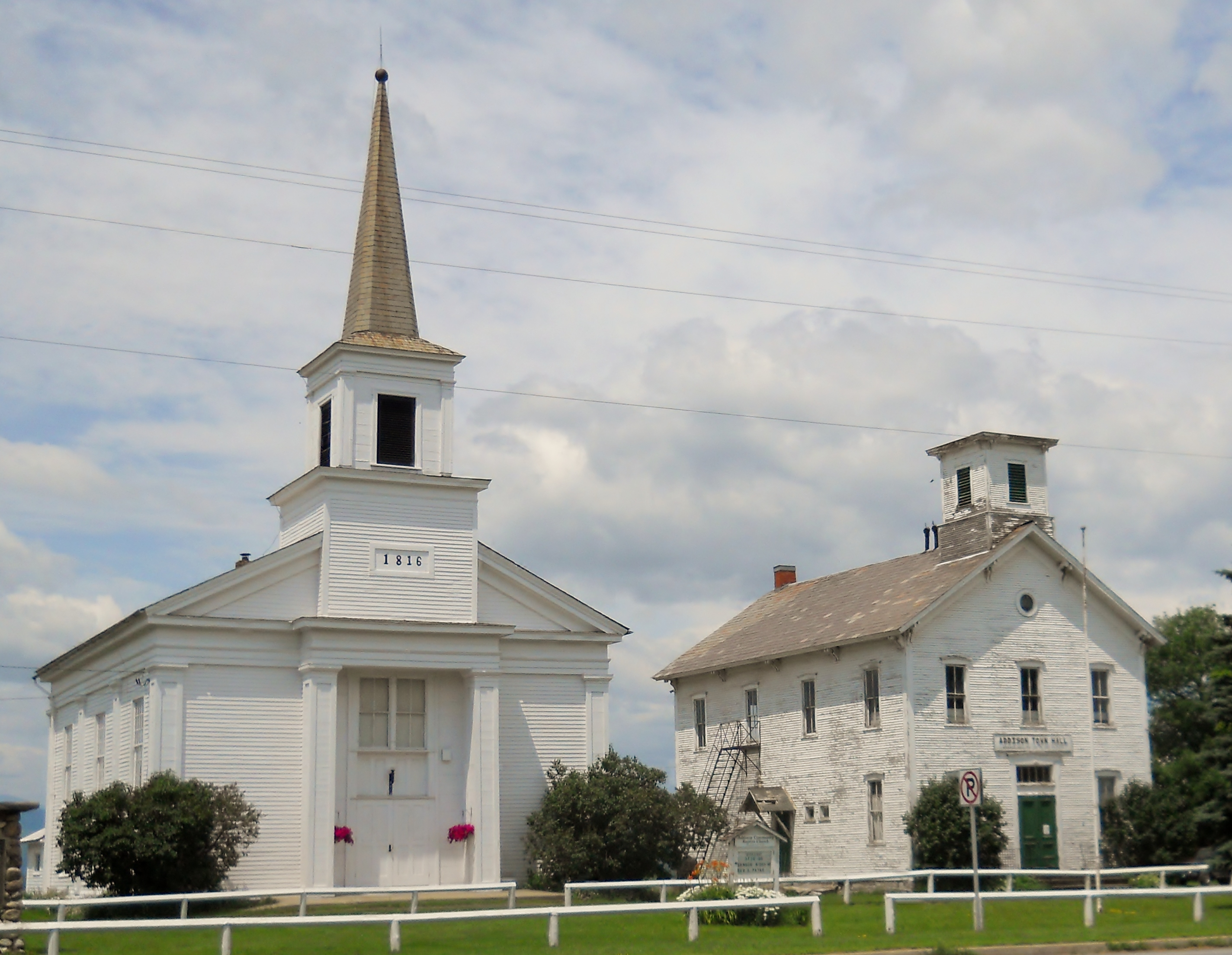 This is the Addison Community Baptist Church and the Addison Town Hall at the village center of Addison, Vermont (Addison Four Corners). It is at the busy intersection of Vermont Route 17 and Vermont Route 22A.